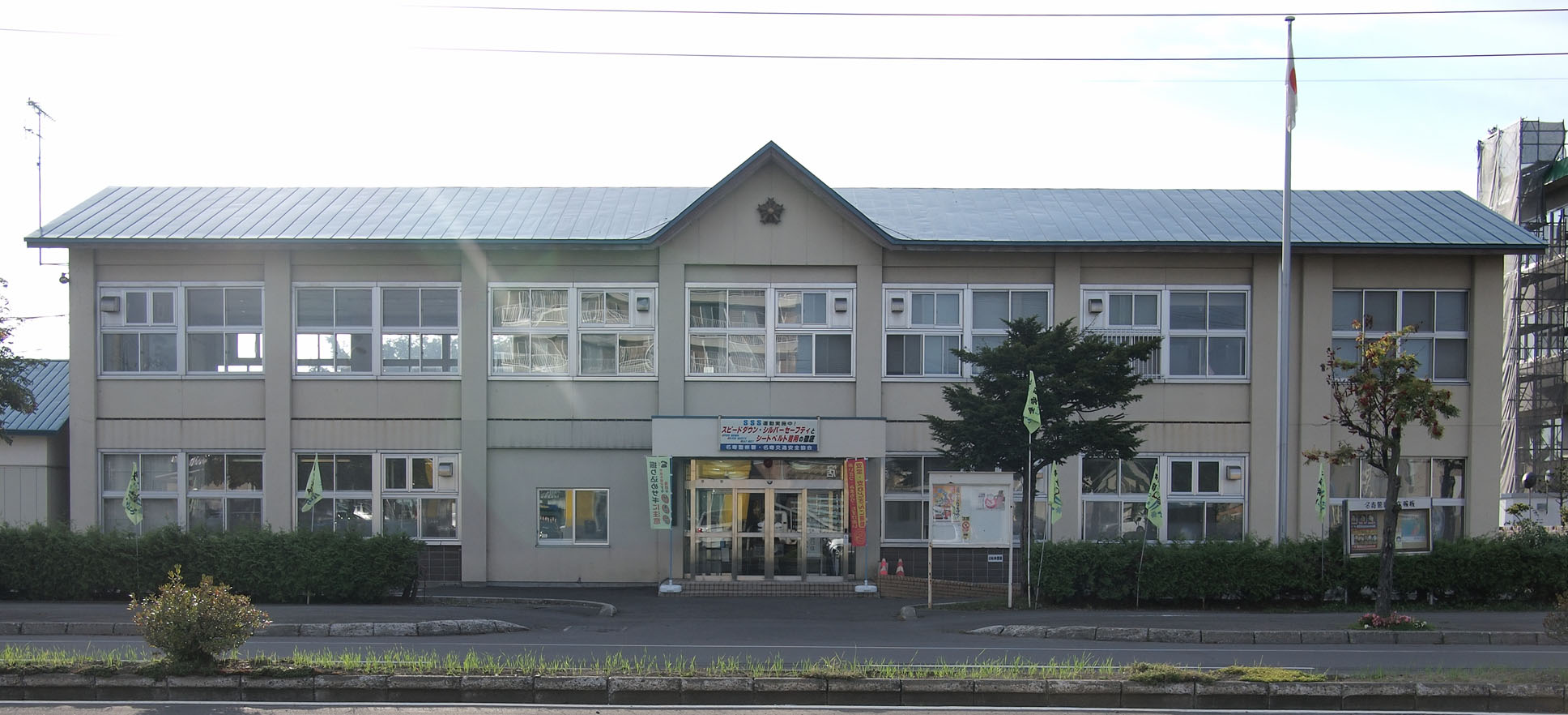 Nayoro police station, Nayoro, Hokkaido, Japan